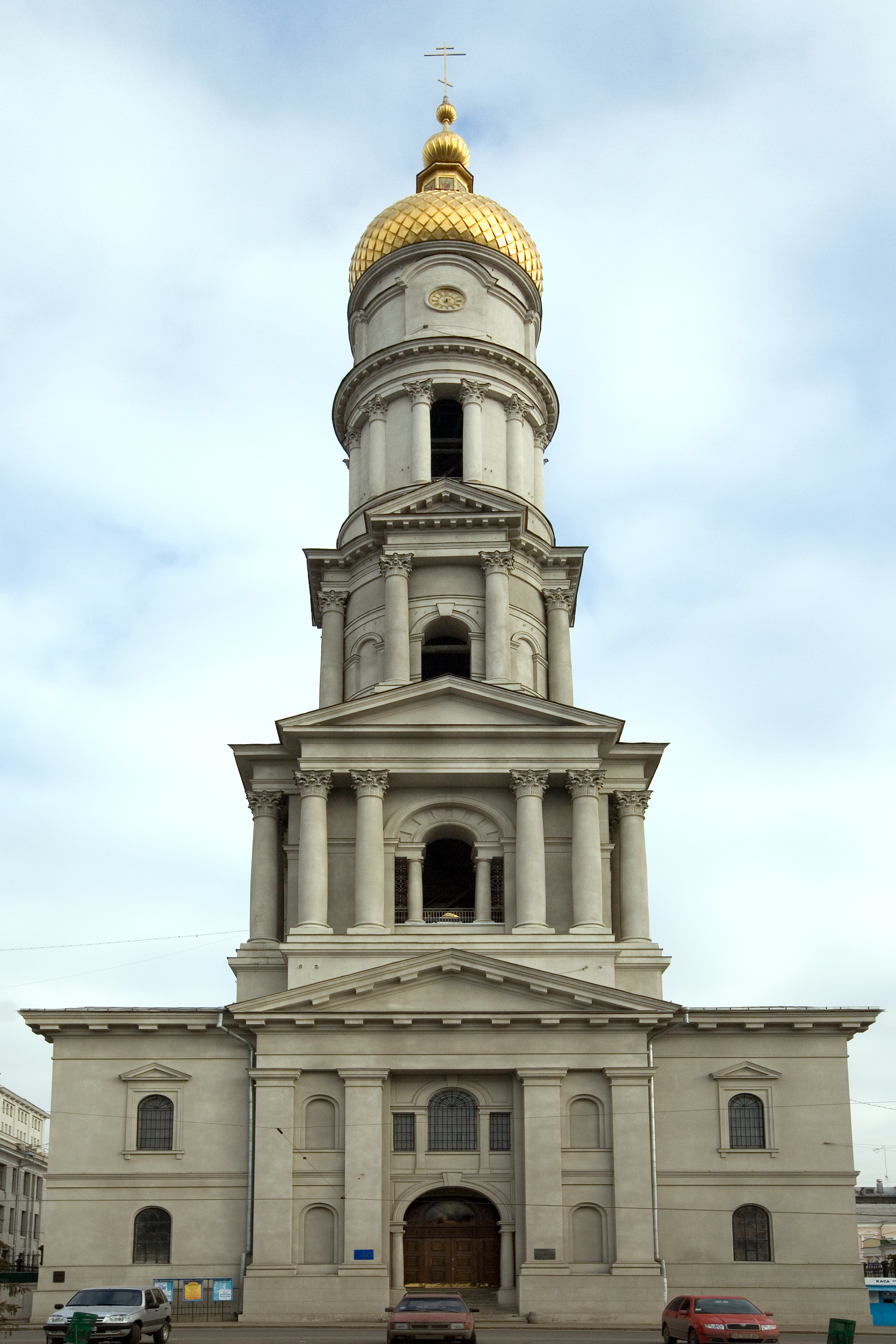 The Bell Tower of Dormition Cathedral, Kharkiv, 1821 - 1844